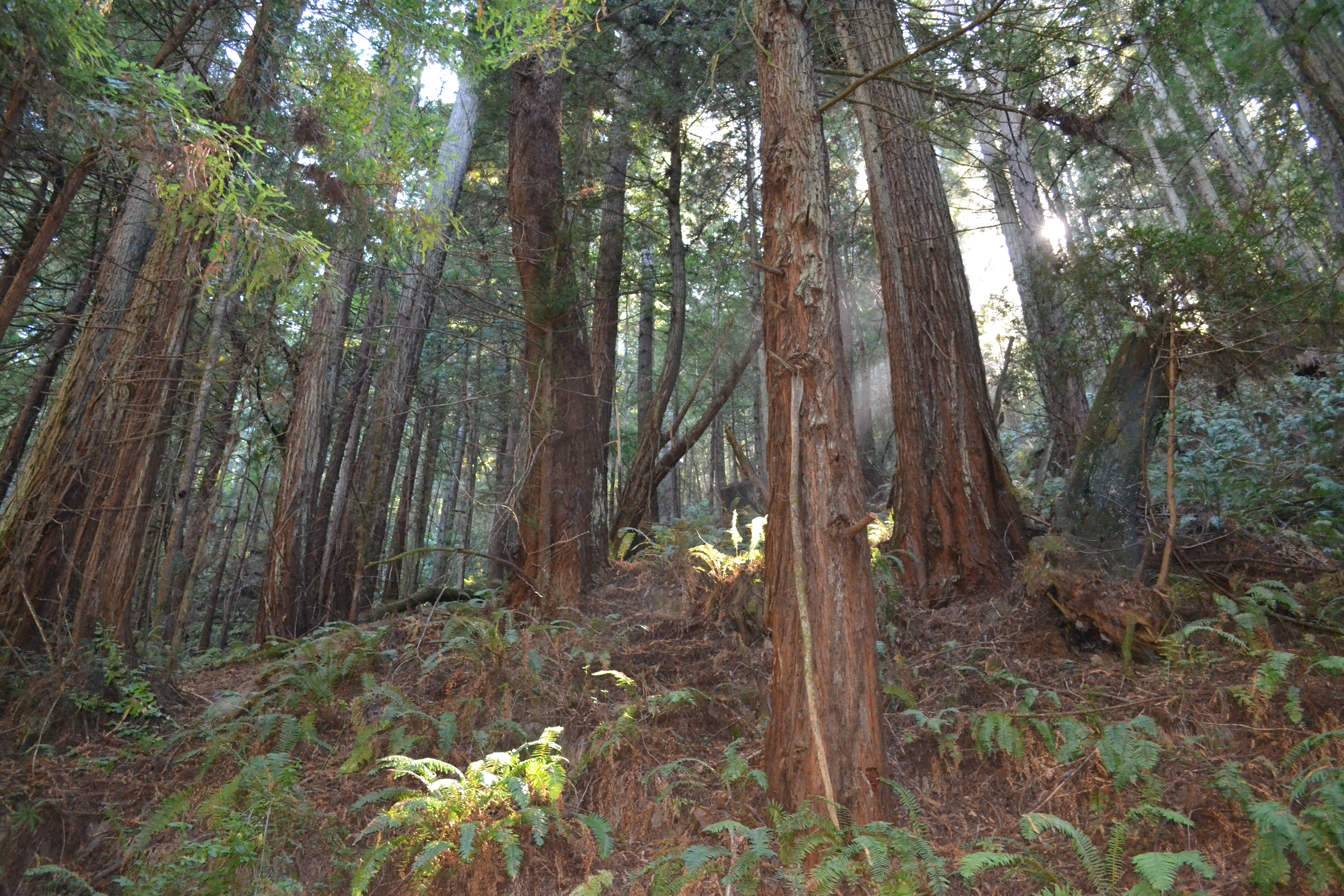 Purisima Creek Trail